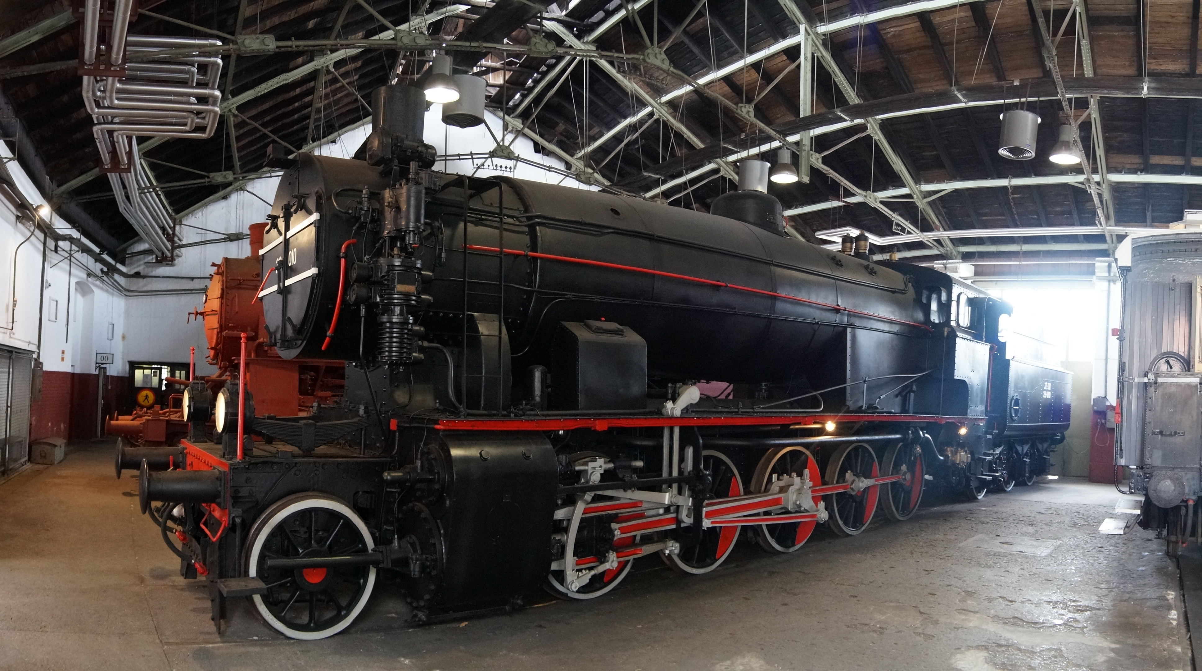 Slovenian Railway Museum